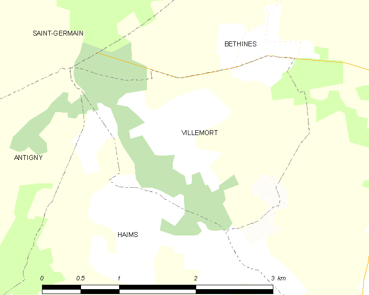 Map of French municipality Villemort